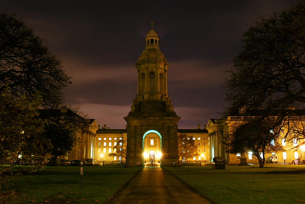 Trinity College Dublin